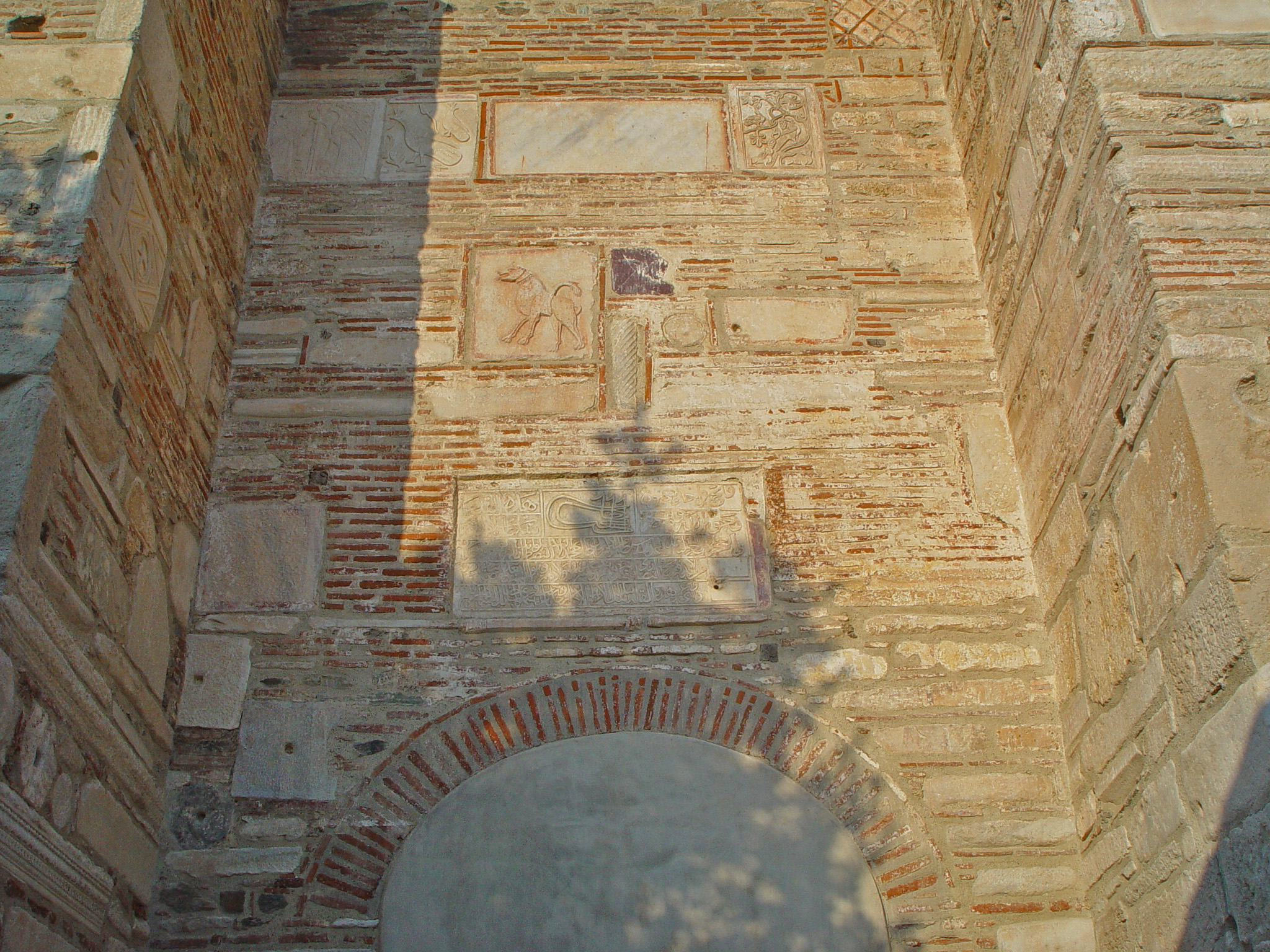 Main entrance of the Heptapyrgion fortress, an Ottoman reconstruction of a Byzantine fort on the Thessaloniki acropolis (1431). Photograph taken by Marsyas 09:50, 28 February 2006 (UTC)